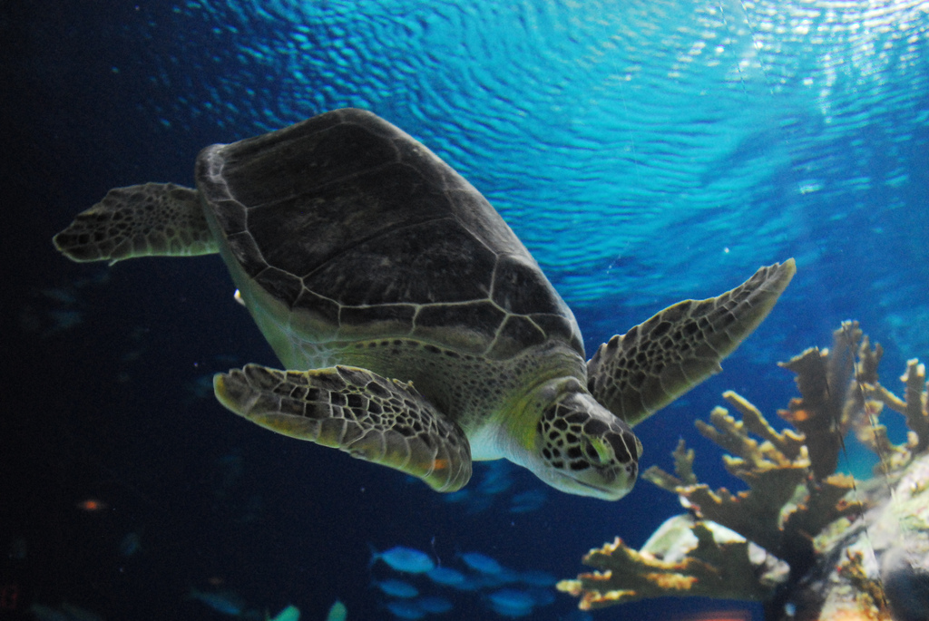 A photo taken at Henry Doorly Zoo, Omaha